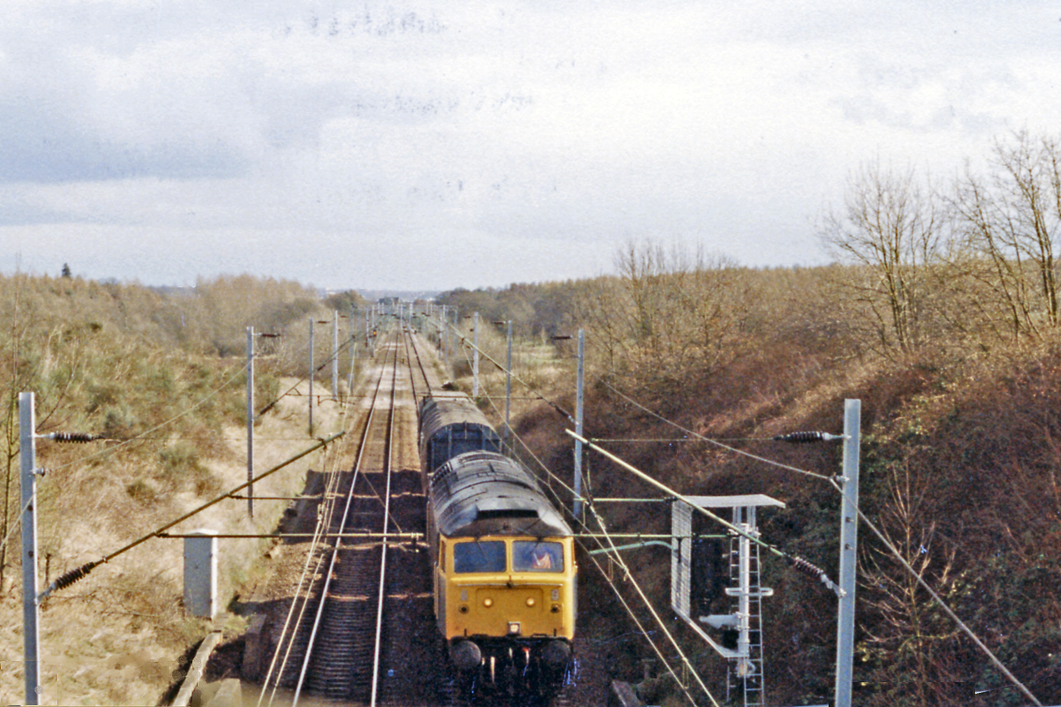 Site of Church Brampton station, 1989. View SE, towards Northampton, Bletchley and London: ex-LNW Northampton Loop off the WCML. The station here was closed from 18/5/31 and no traces are left. The Down train is a short Diesel-hauled freight.